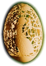 created with a dentist's drill